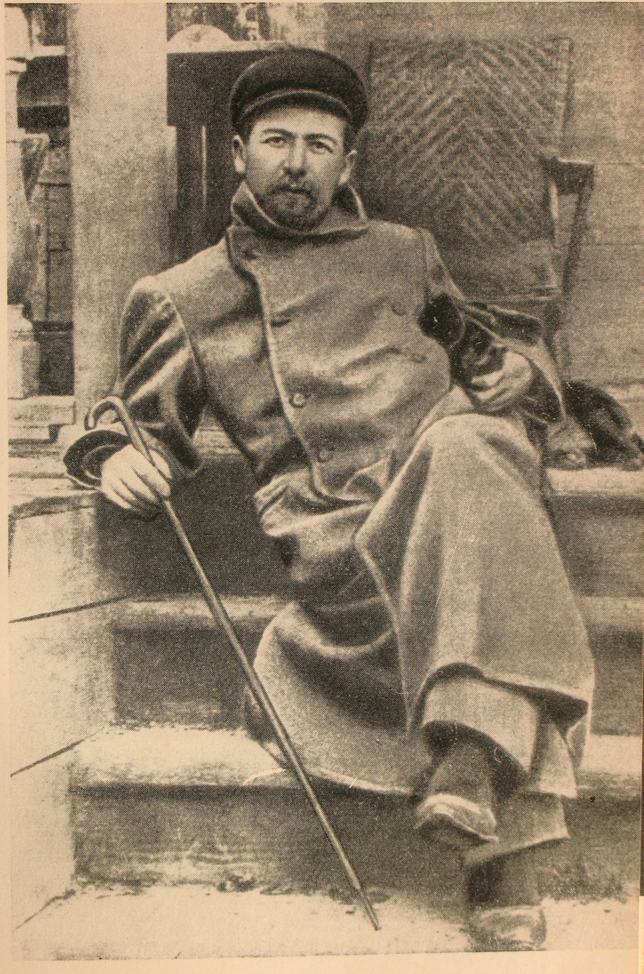 Russian writer Anton Chekhov (dead 1904) in Melikhovo in 1897.